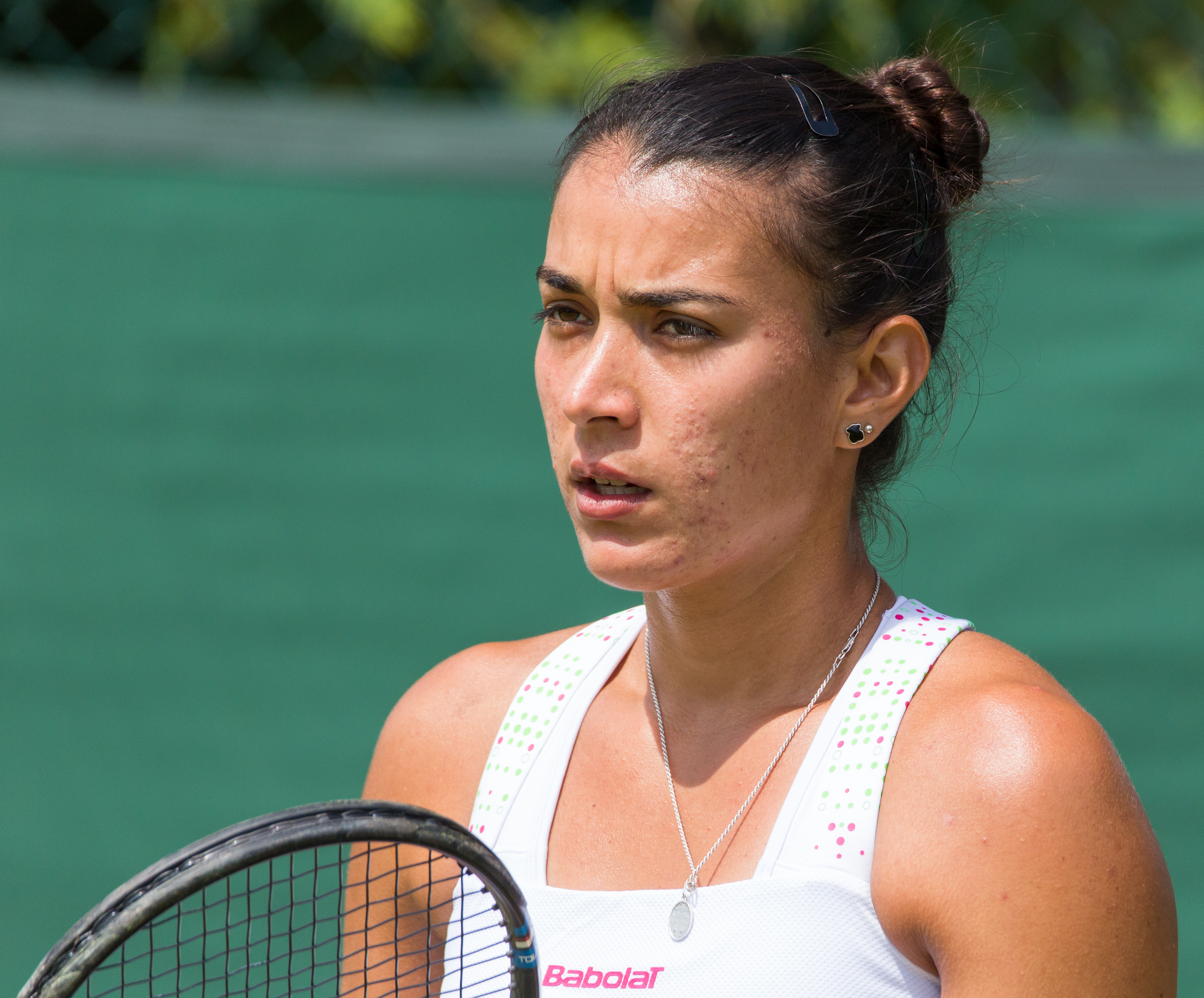 Verónica Cepede Royg competing in the second round of the 2015 Wimbledon Qualifying Tournament at the Bank of England Sports Grounds in Roehampton, England. The winners of three rounds of competition qualify for the main draw of Wimbledon the following week.